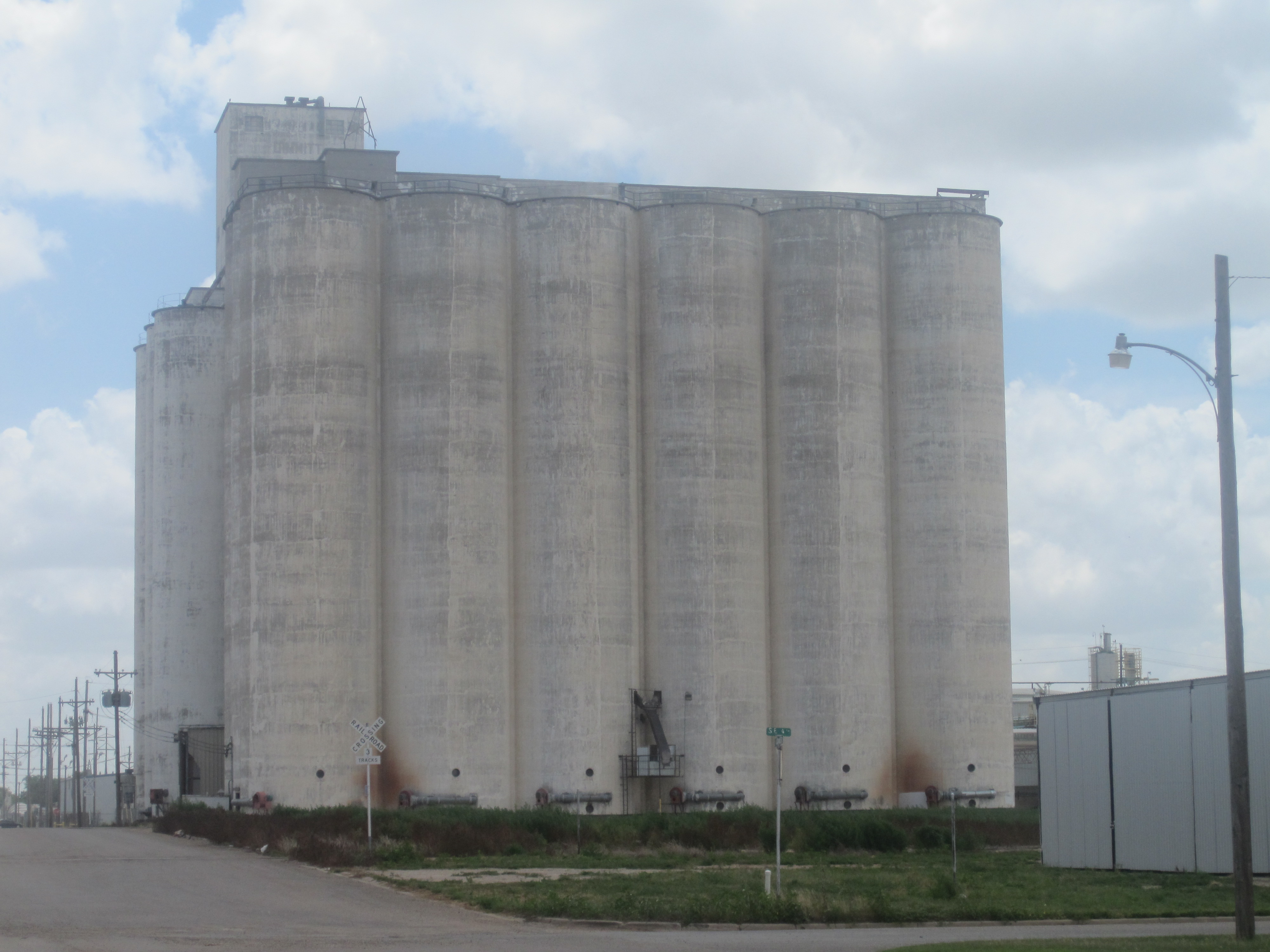 I took photo with Canon camera in Dimmitt, TX.